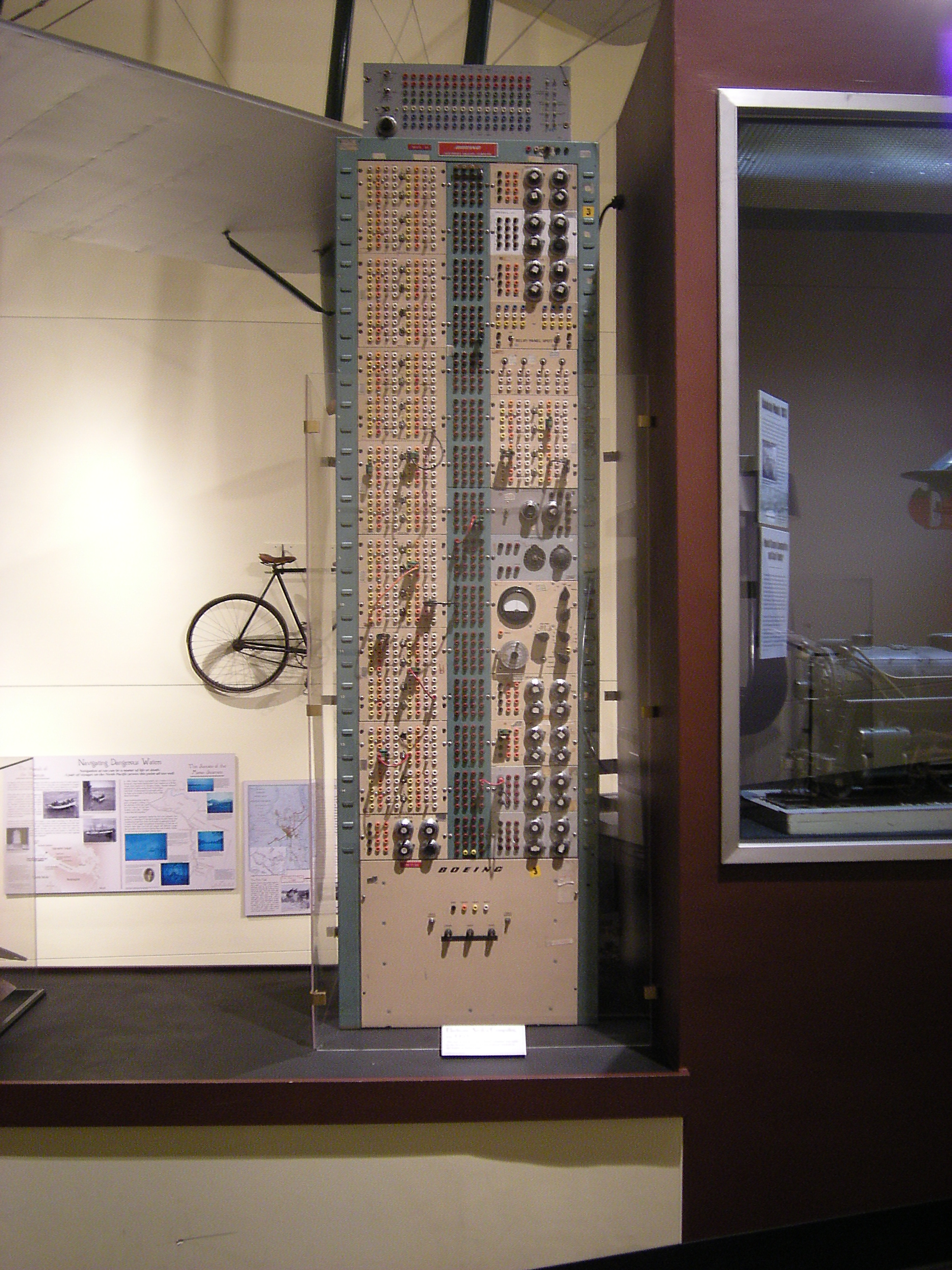 Electronic analog computer, built circa 1953 at Boeing.